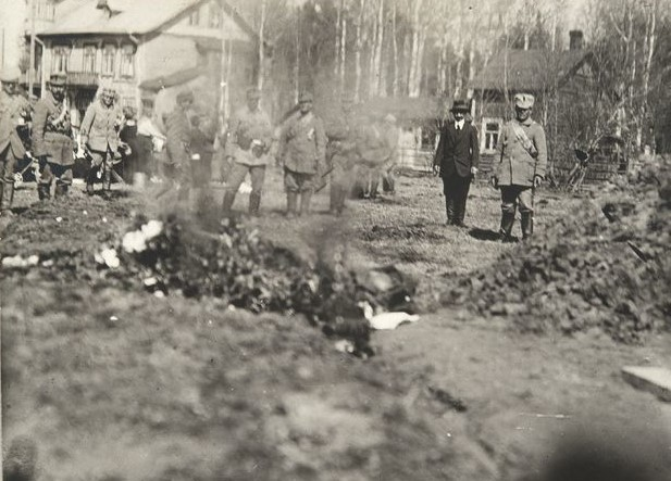 1918 Finnish Civil War. White soldiers burning Red Guard funeral wreaths in Terijoki.